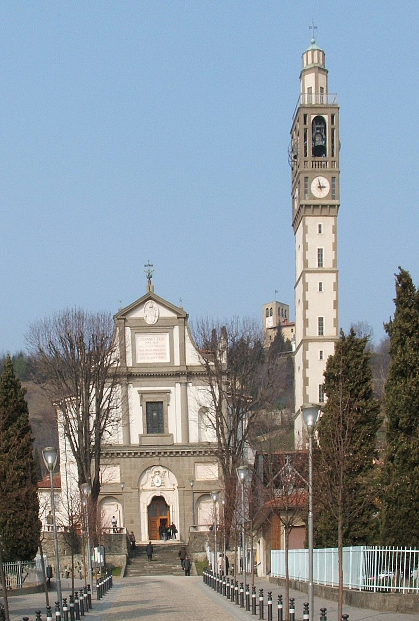 Sotto il Monte Giovanni XXIII, Bergamo, Lombardy, Italy - Saint John the Evangelist parish church